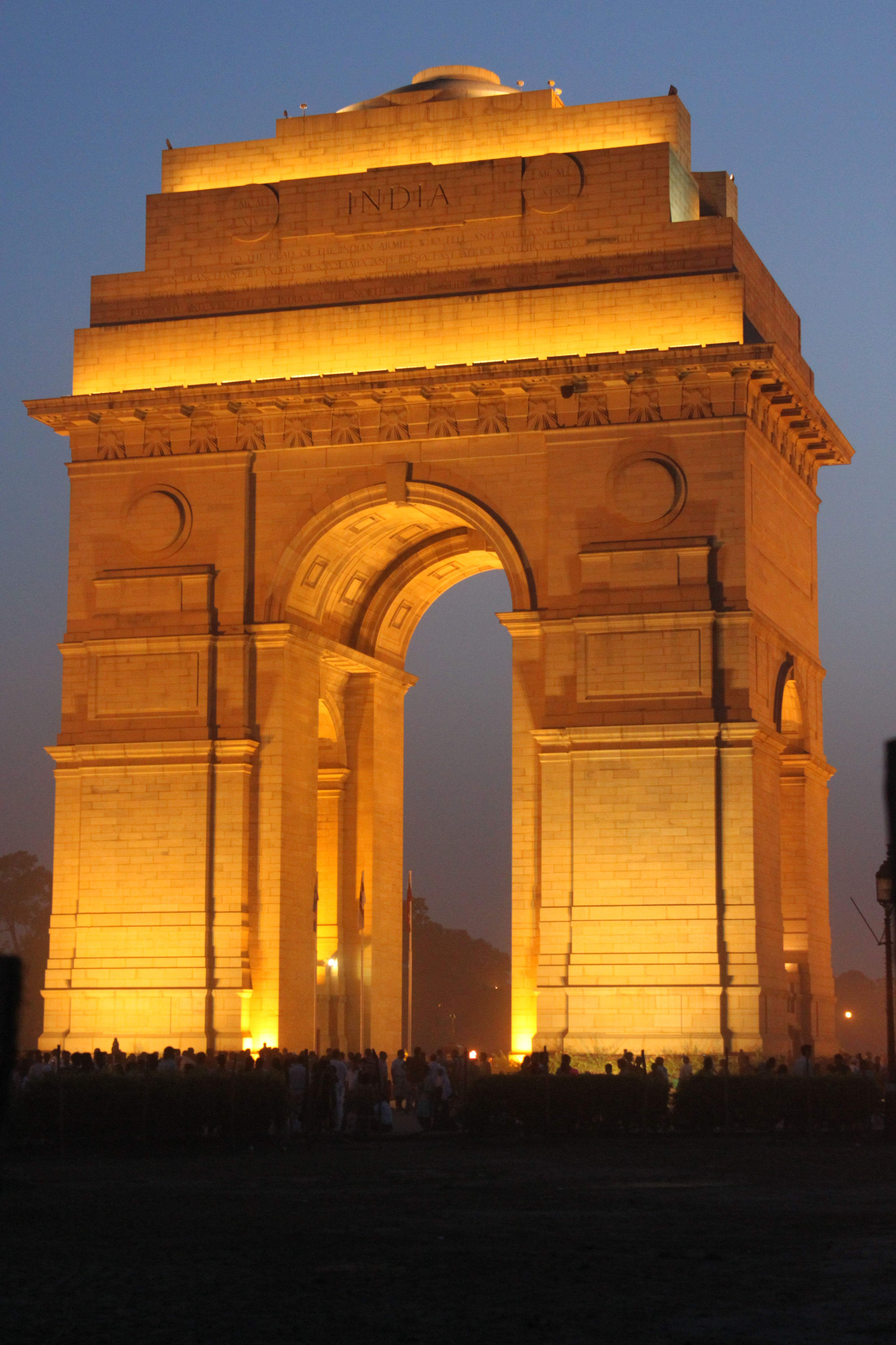 India Gate at night.